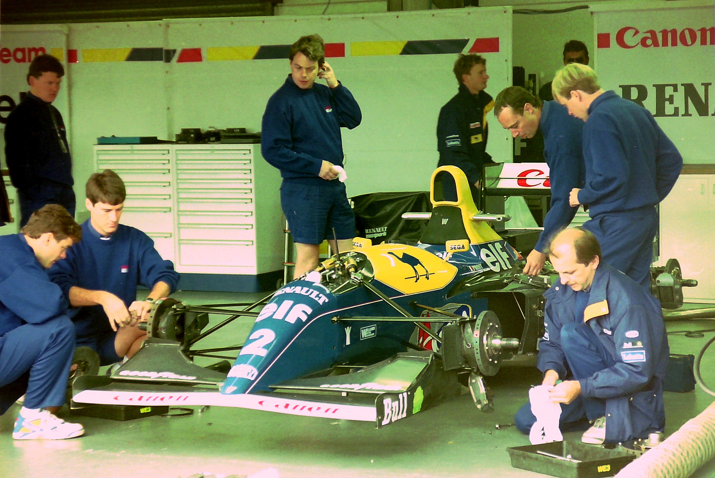 Alain Prost`s Williams FW15C in the pit garage at the 1993 British Grand Prix